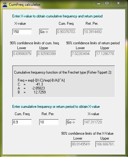 Probability distribution calculator as used in the CumFreq software